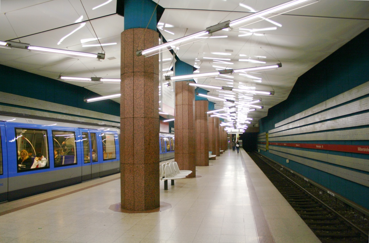 Munich subway station Milbertshofen